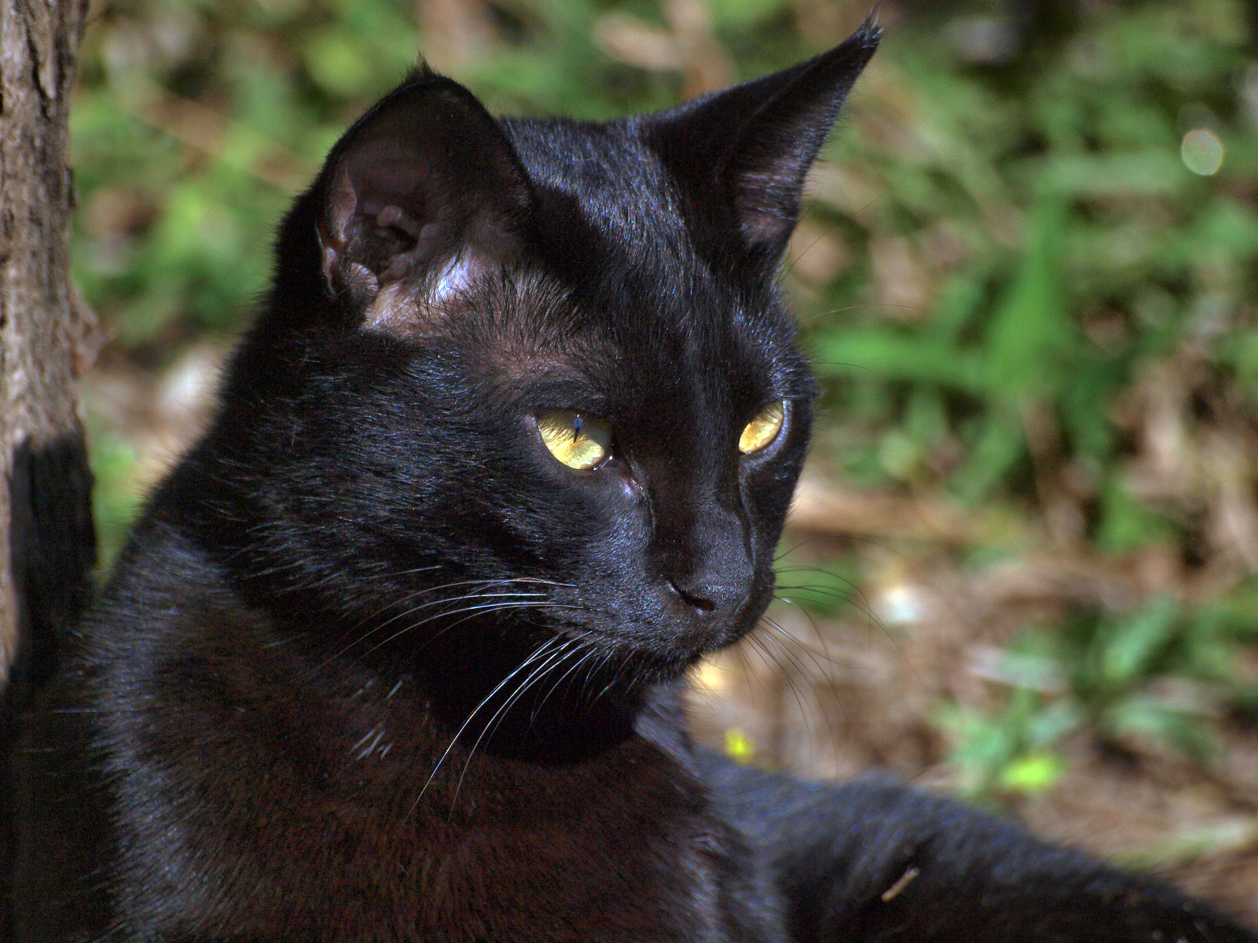 Tony the Black Cat